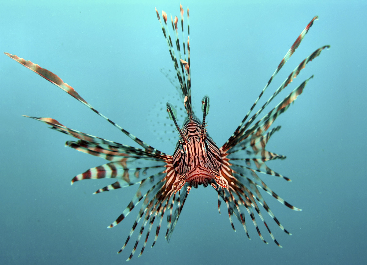 Pterois volitans, also known as red or common lionfish. Picture taken at Tasik Ria, Manadao, Indonesia.